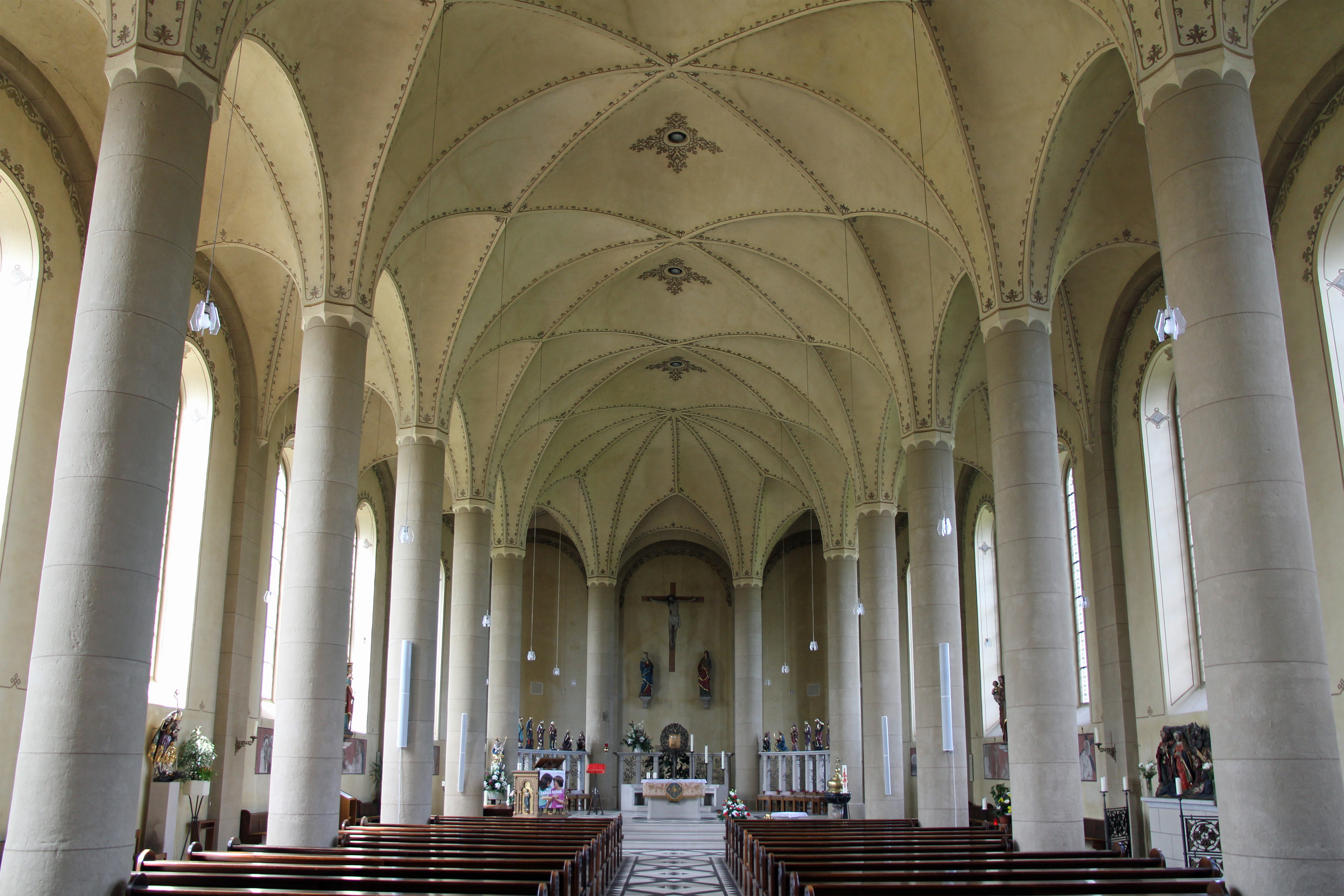 St. Servatius church in Koblenz